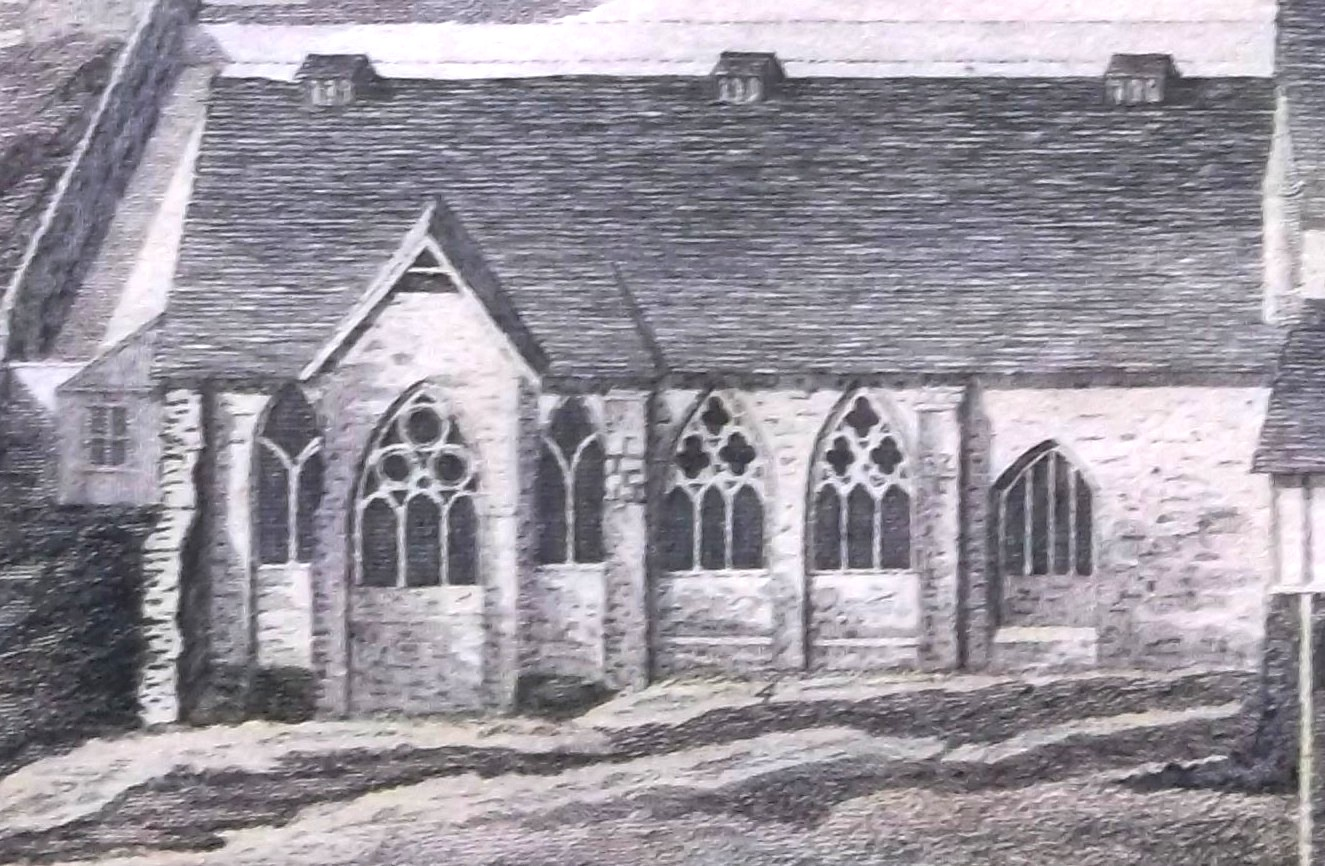 Detail of the former refectory (as identified by R Gilyard-Beer) of the Ipswich Blackfriars taken from the Prospect of Christ's Hospital, Ipswich by Joshua Kirby (1748)